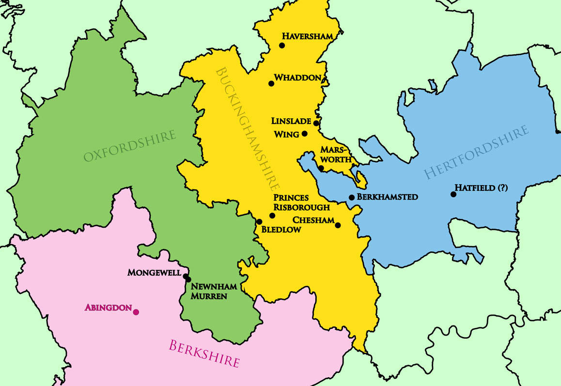 Estates of Ælfgifu, testatrix (and probably former wife of Eadwig), excluding Gussage and Wickham.